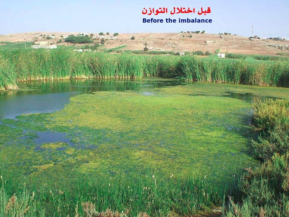 Sidi Moussa Lagoon Nature Preserve - View